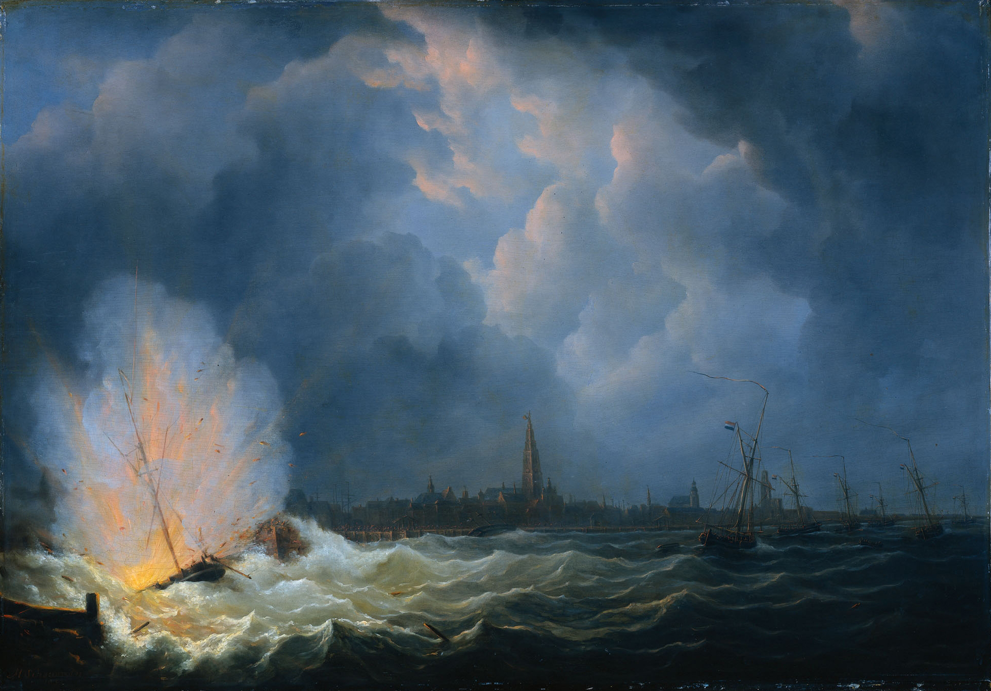 The explosion of gunboat nr. 2 under command of Jan van Speijk, Antwerp, february 5, 1831